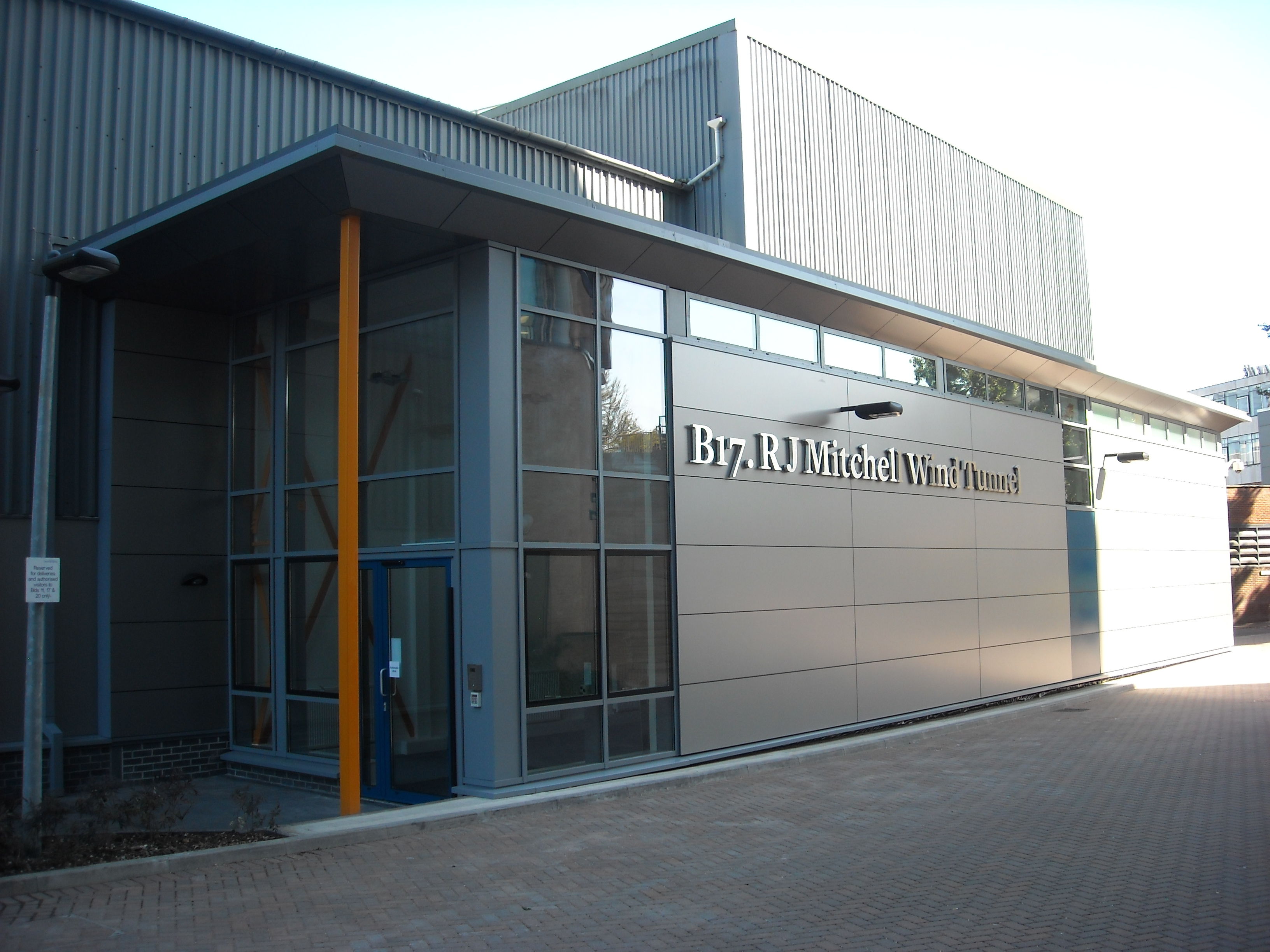 The exterior of the R. J. Mitchell Wind Tunnel on the Highfield Campus of the University of Southampton